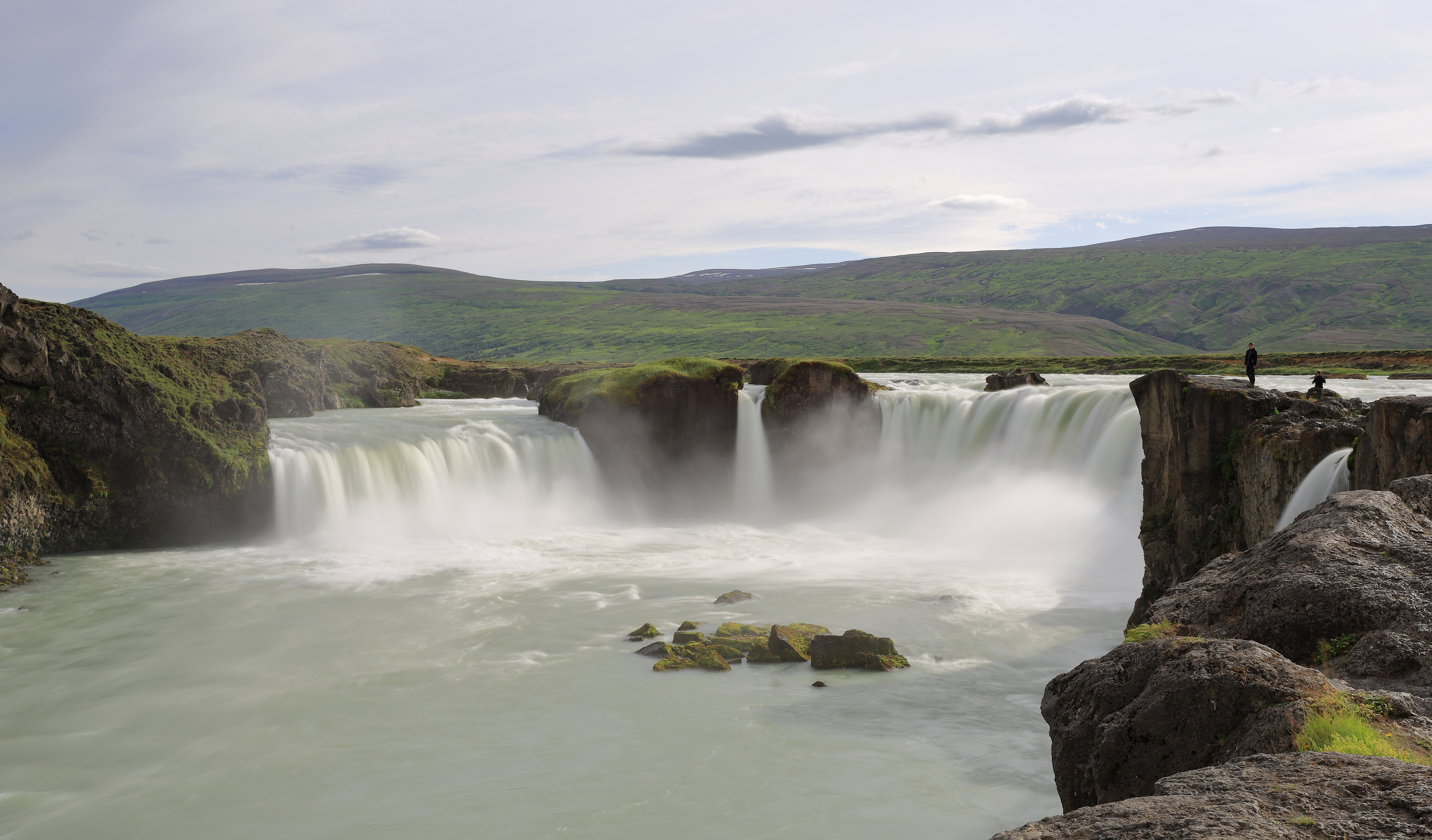 Goðafoss, Iceland, July 2014.